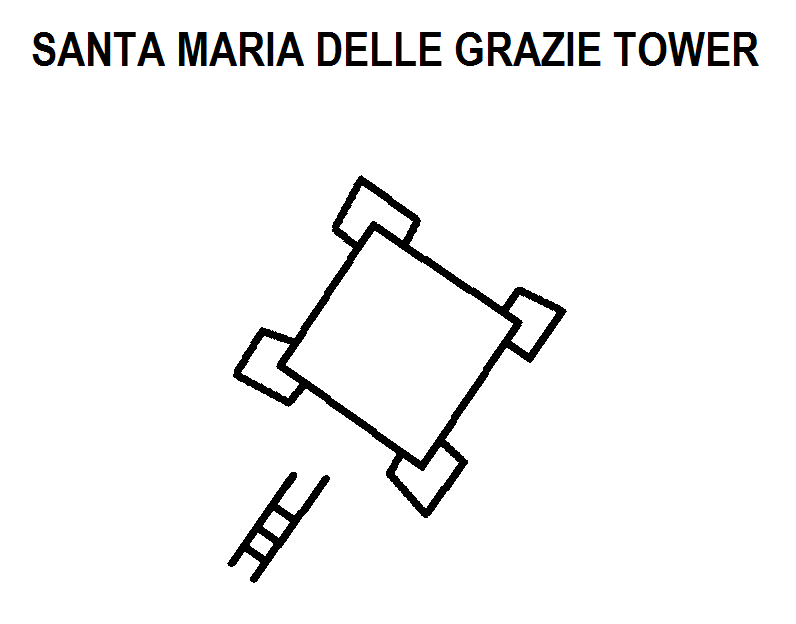 Map of the Santa Maria delle Grazie Tower in Xgħajra, Malta. The tower was demolished in around 1888, and its exact layout is not known. This plan is based on a c. 1761 map, now in the National Library of Malta.